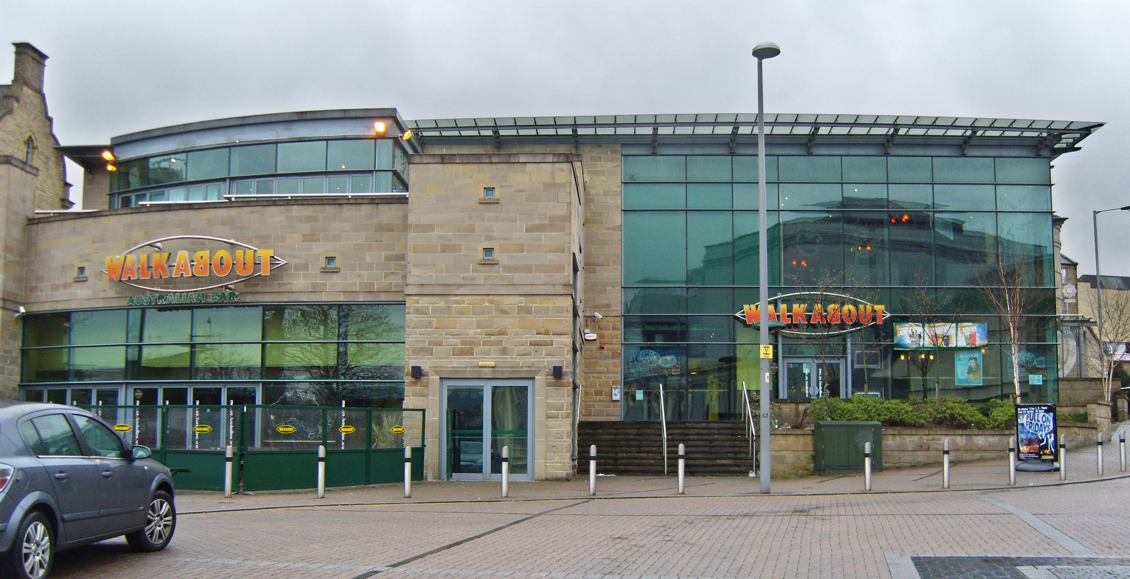 A Walkabout bar in Bradford taken by myself.